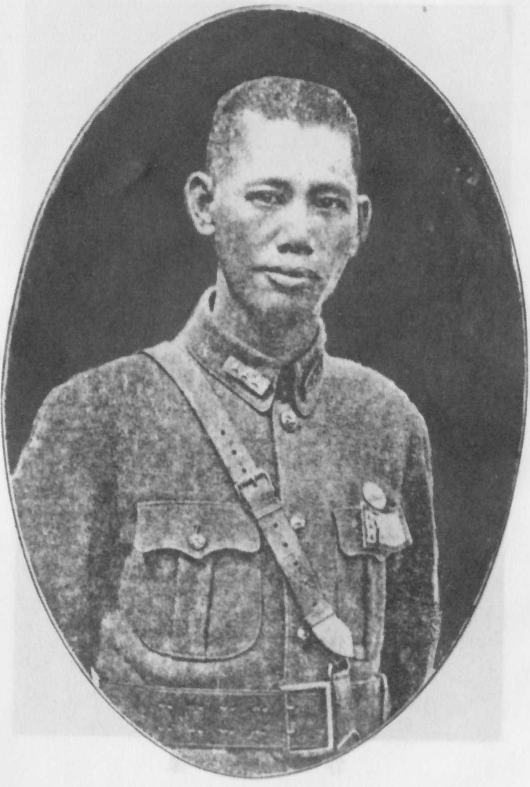 Cai Tingkai (Ts'ai T'ing-k'ai) (1892 - 1968)